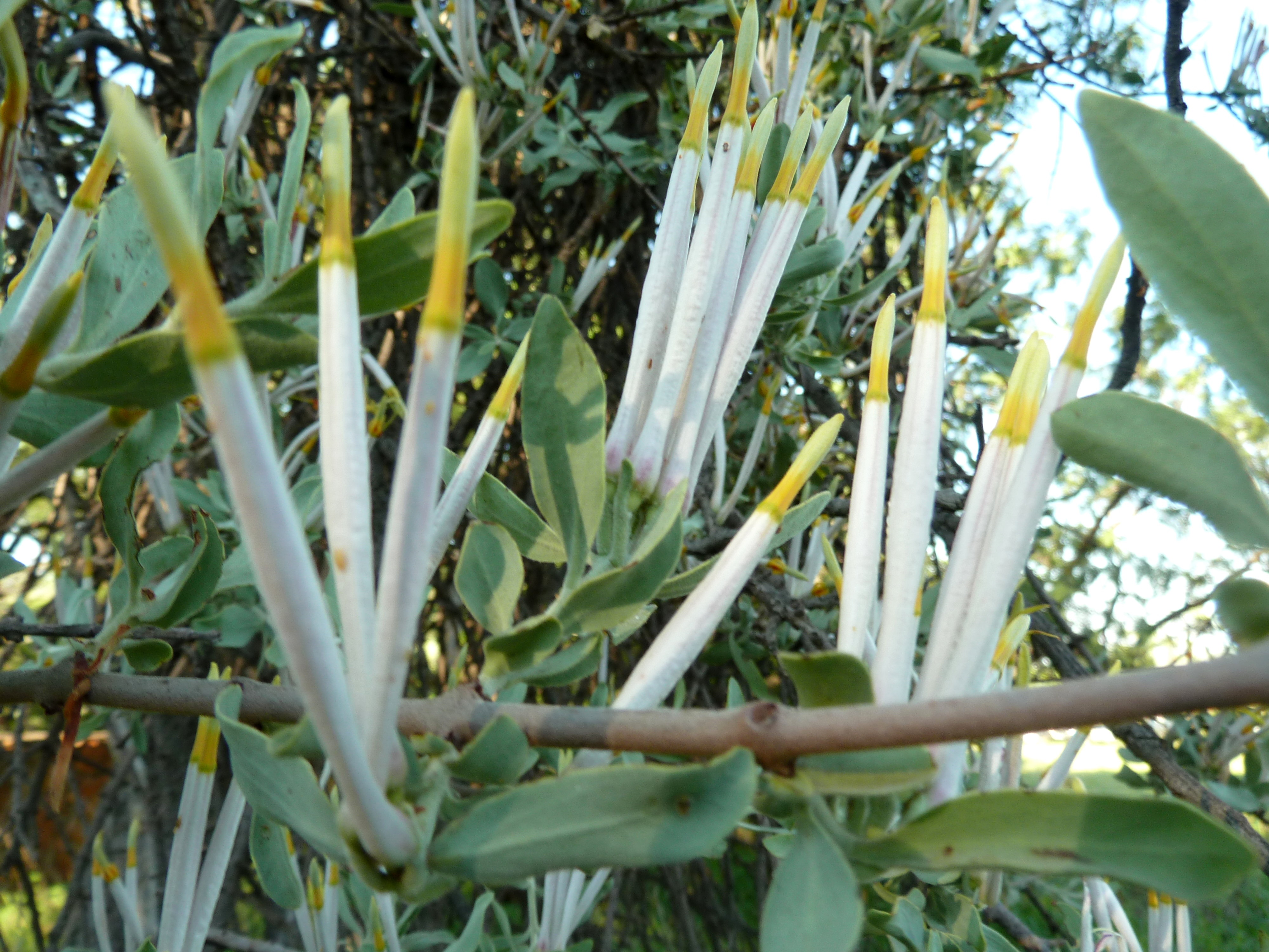 Unopened flowers of the Natal mistletoe, growing on Acacia caffra, at Seringveld near Pretoria